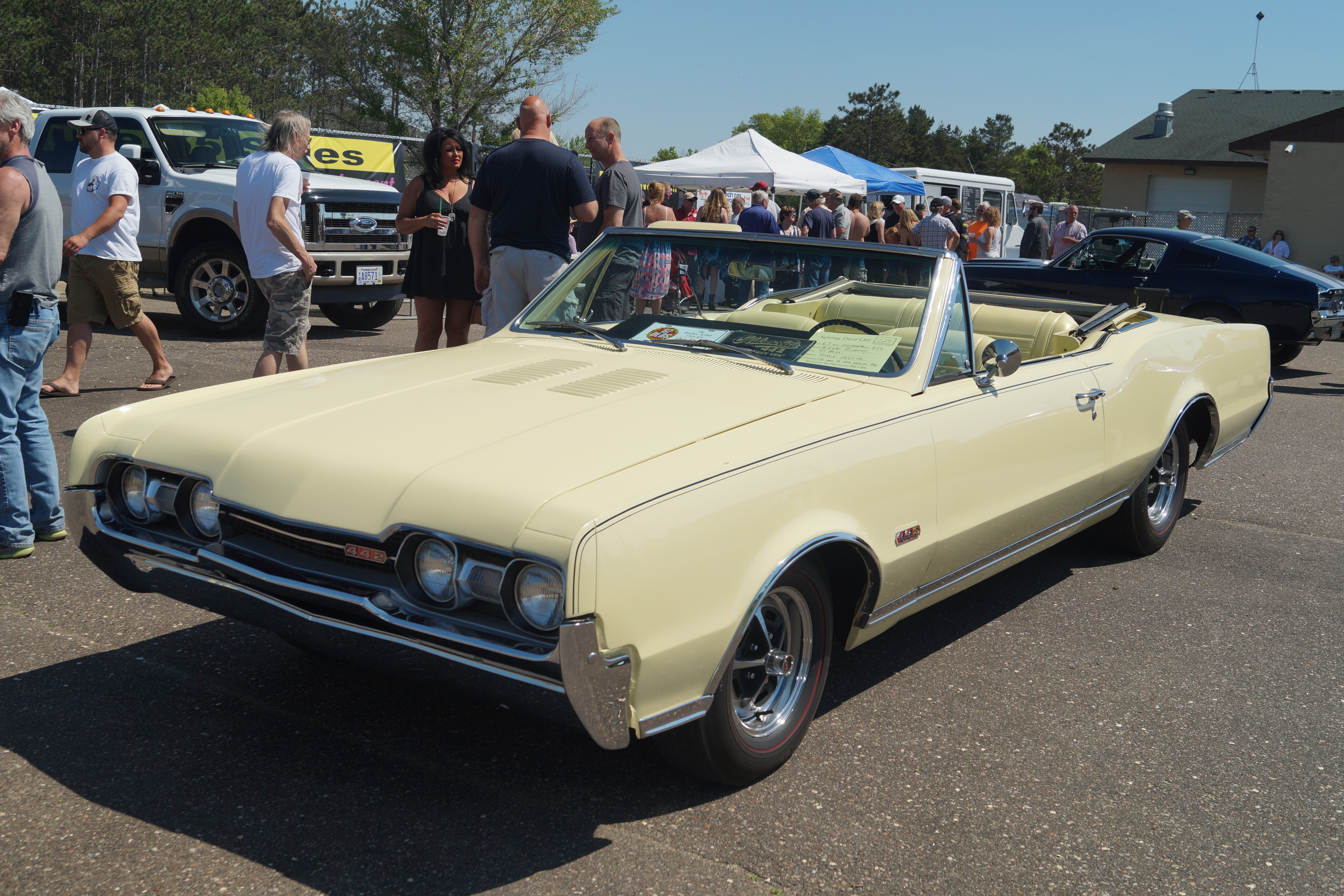 Click here for more car pictures at my Flickr site. Oldsmobile Club of America Minnesota Chapter 4th Annual Spring Dust Off Car Show & Swap Meet Unique Classics on 65 Ham Lake, Minnesota